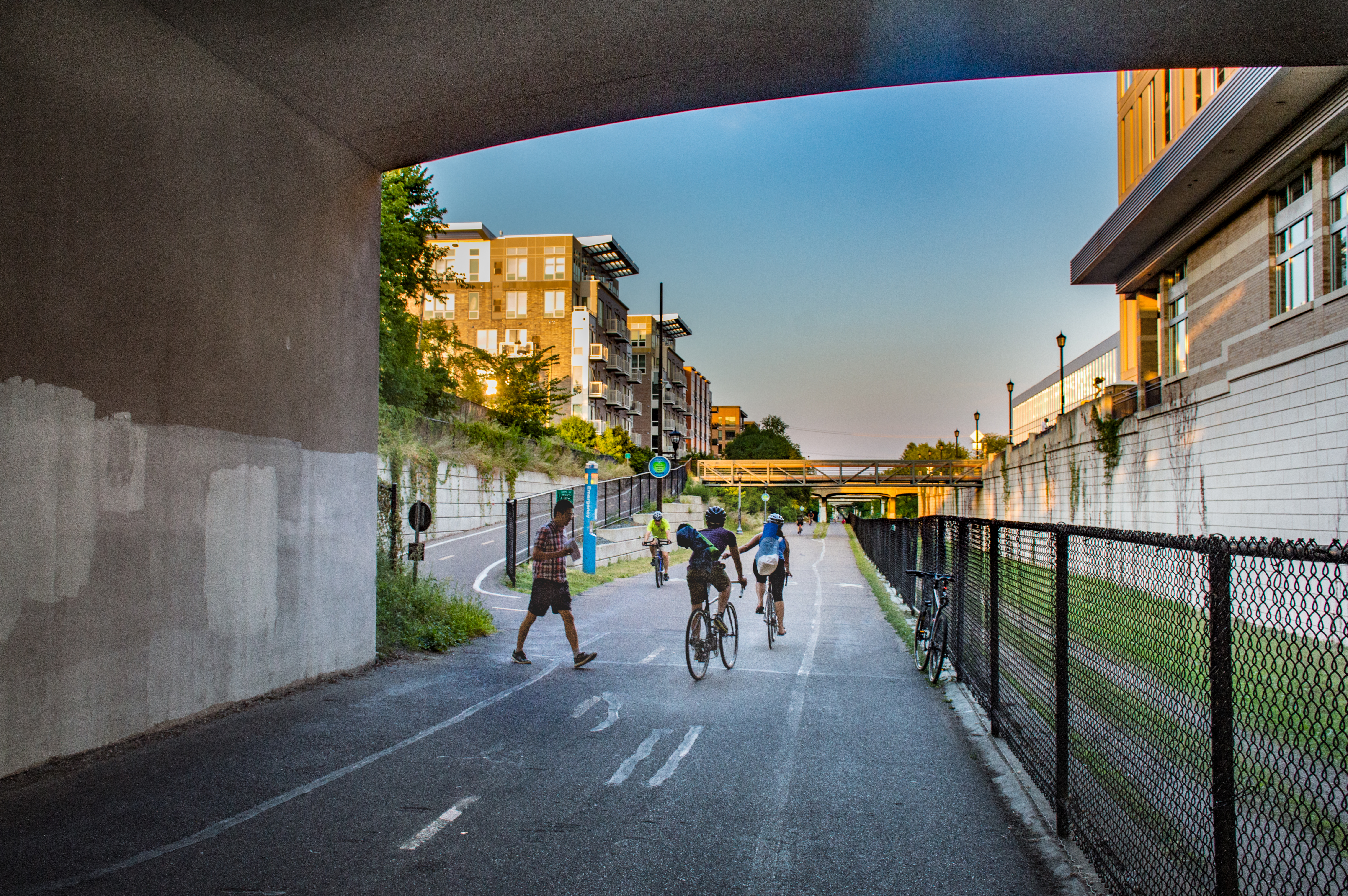 View of the Midtown Greenway from beneath the Uptown Transit Center on Hennepin ave